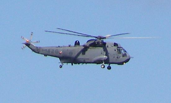 A Canadian Forces Sikorsky CH-124 Sea King helicopter at Halifax, Nova Scotia (Canada), in March 2007.